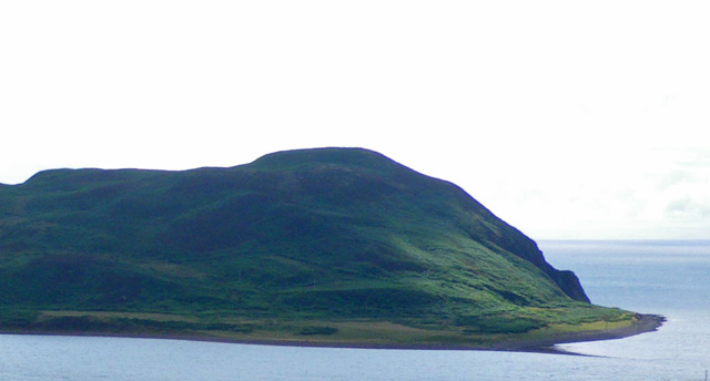 Western portion of Davaar Island, near to Kildalloig, Argyll And Bute, Great Britain. Water in the foreground is the Campbeltown Loch. The image is acquired on a very gray day, but the peak of the island, which stands at 115 metres above sea level, is clearly visible.